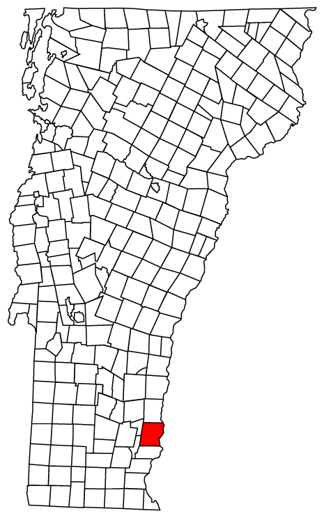 Description: Map of Vermont towns with Westminster highlighted Source: Map created by Jared C. Benedict on 26 March 2004. Copyright: © Jared C. Benedict.